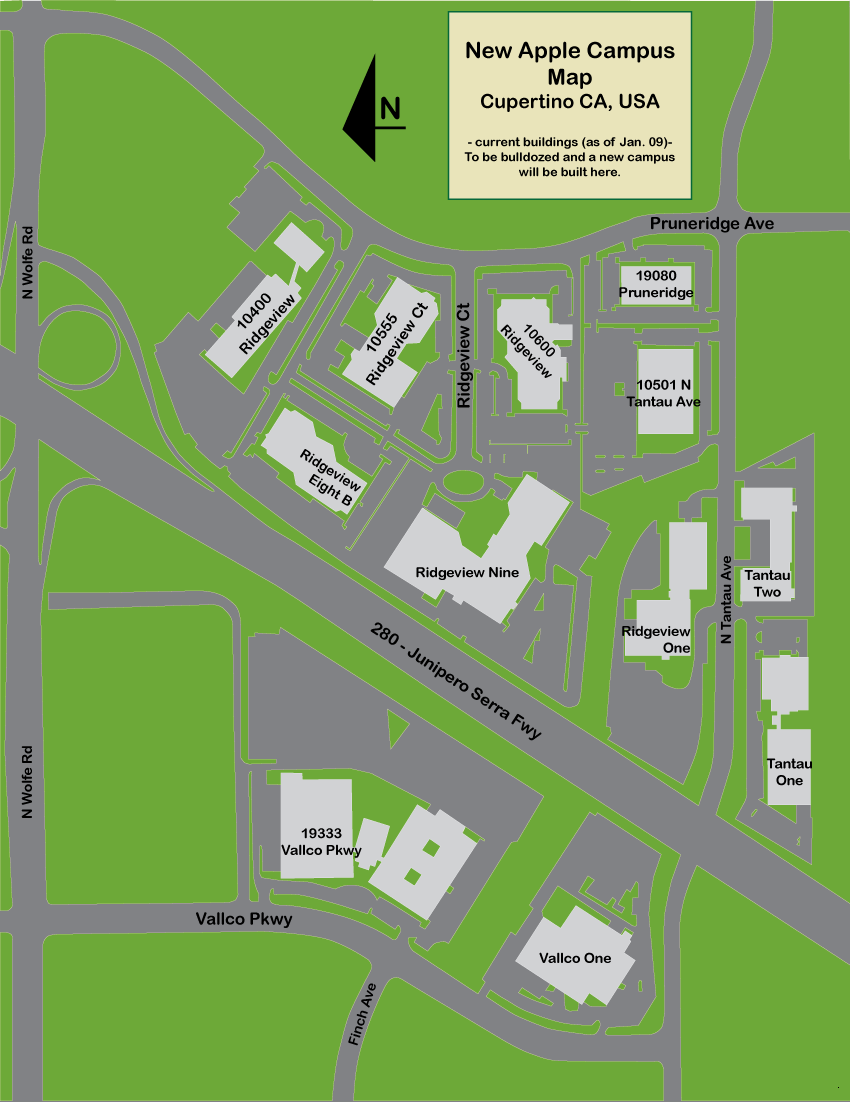 Current buildings of Apple's new Cupertino Campus.